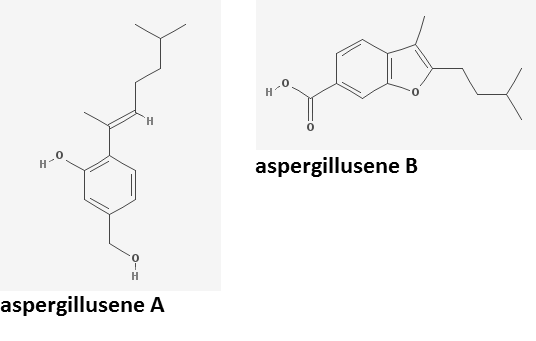 Aspergillusene A&B